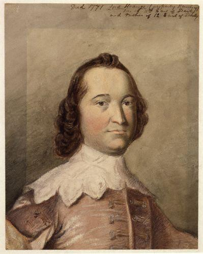 Portrait of James Stanley, lord Strange